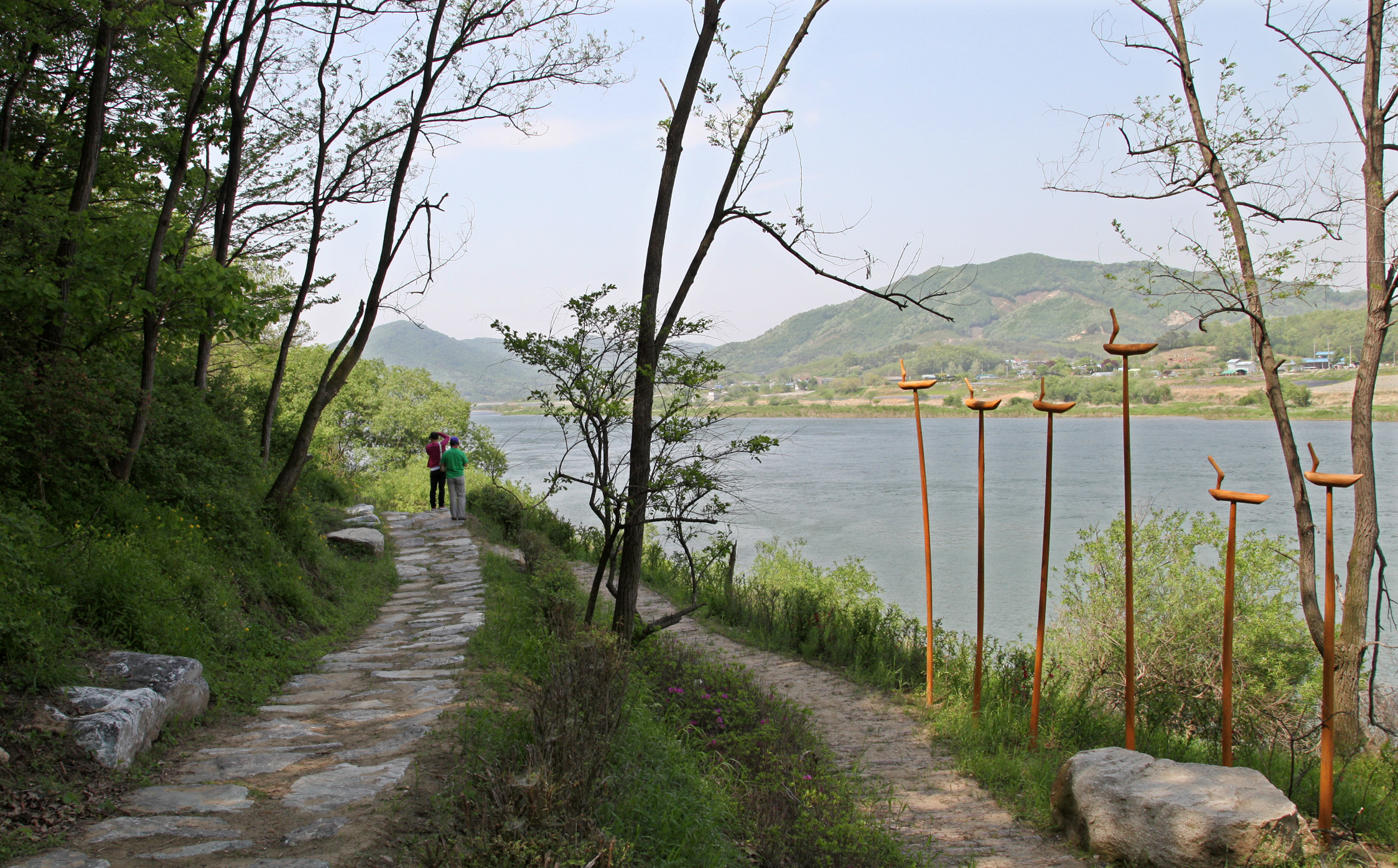 10 best walking trails in Korea Binae trail (Chungju, Chungbuk) (Photo by Ministry of Public Administration and Security) KOCIS 행정안전부가 선정한 녹색길 베스트 10 충주 비내길 (충북 충주시) 사진제공 - 행정안전부 문화체육관광부 해외문화홍보원